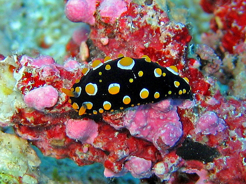 A live individual of Phyllidia cf. carlsonhoffi